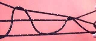 "Roller Coaster", photo by Myriam